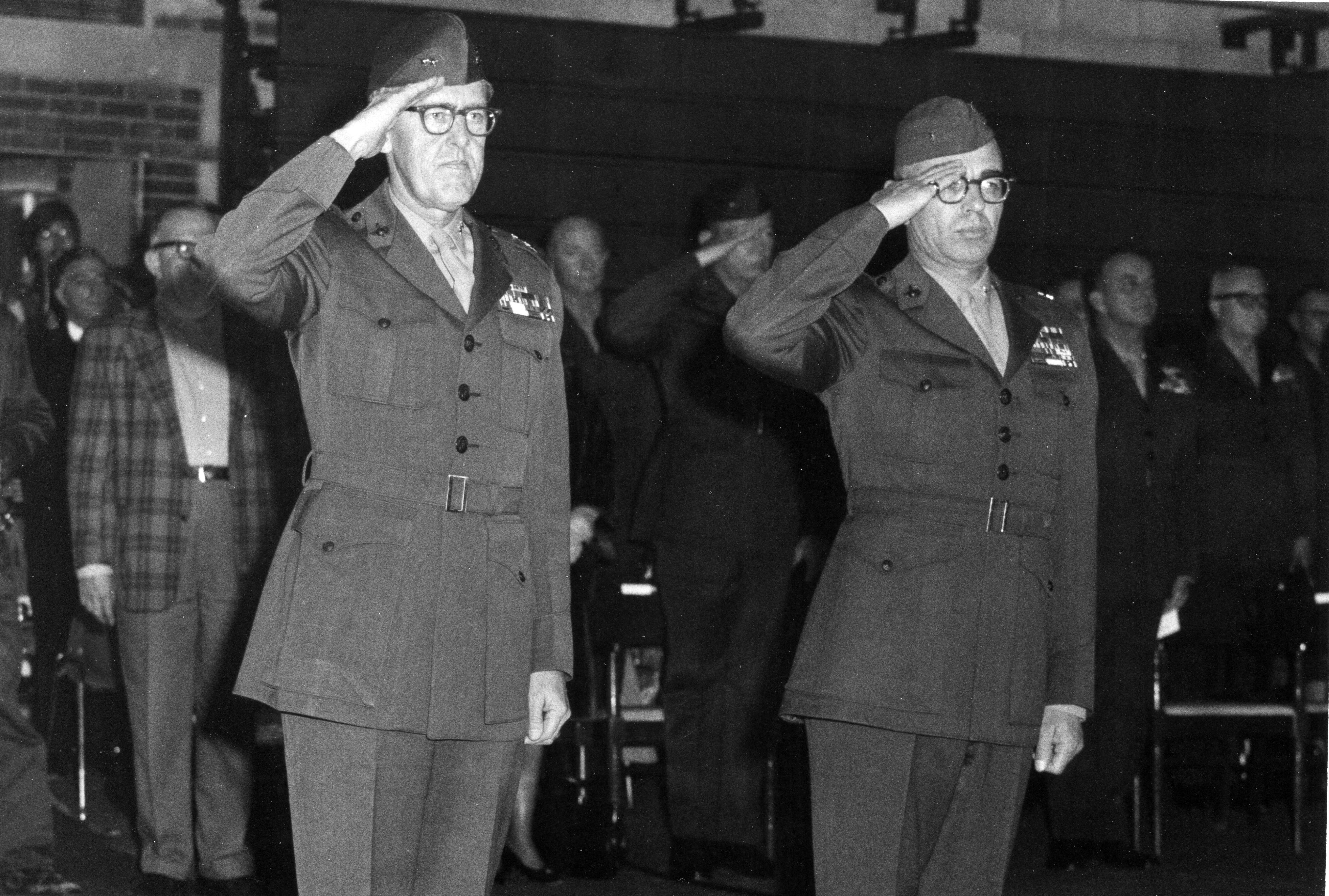 Official description: Maj. Gen. Fred E. Haynes, left, stands alongside his successor as CG, 2nd Marine Division, Brig. gen. Arthur J. Poillon as they render honors to passing colors. Gen. Poillon assumed command of the division in change of command ceremonies yesterday. Gen Haynes left Camp Lejeune today for Washington, D.C. where he will stay briefly before departing for his new assignment in Seoul, Korea.